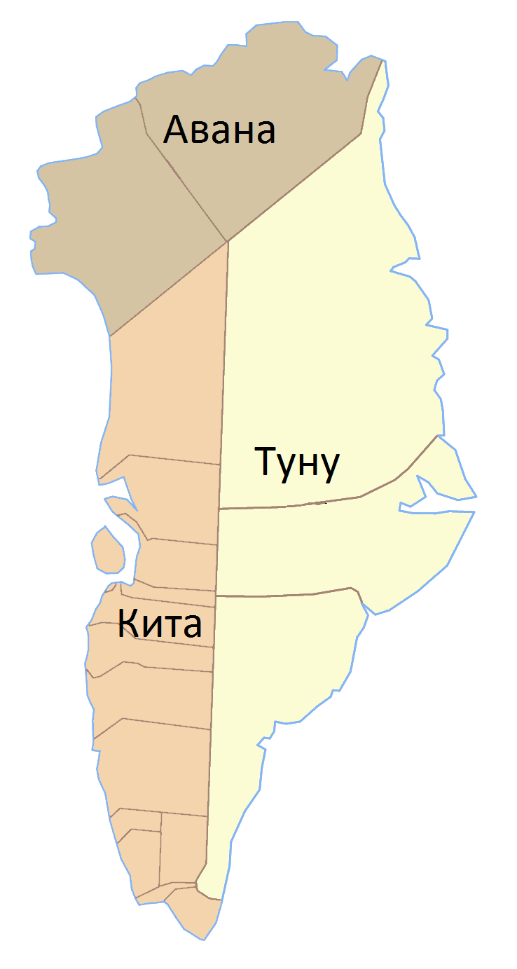 The three counties of Greenland: Kitaa/Vestgrønland (West Greenland), Tunu/Østgrønland (East Greenland) and Avannaa/Nordgrønland (North Greenland) in Macedonian